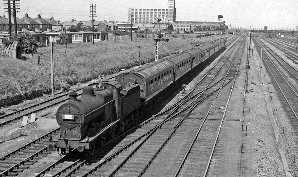 Derby - Lowestoft holiday express approaching Peterborough North. View NW from Spital Bridge, towards Manton, Melton Mowbray and Nottingham/Derby on the ex-Midland lines. On the right is the ex-Great Northern East Coast Main Line to Grantham and the North, with further over Spital Sidings and beyond Westwood Bridge the great New England Yard complex. (The big locomotive-coaling plant can just be distinguished, far right). Before 1959, these holiday trains to the East Coast would have run east from Manton via Saxby and the Midland & Great Northern route, but for a few more years they were diverted via Peterborough (North and East), March and Ely. Even at this relatively late date, 4F 0-6-0s were being used and this is ex-Midland No. 44013. It will hand over to an Eastern Region locomotive at Peterborough East or March - see TL1899 : Derby - Lowestoft holiday express approaching Peterborough North.